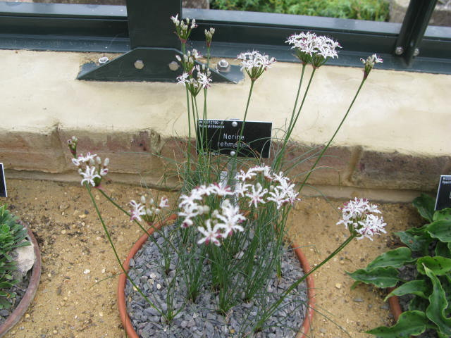 RHS Grown. Nerine Rehmanni.